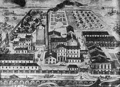 Assan's Mill, old engraving